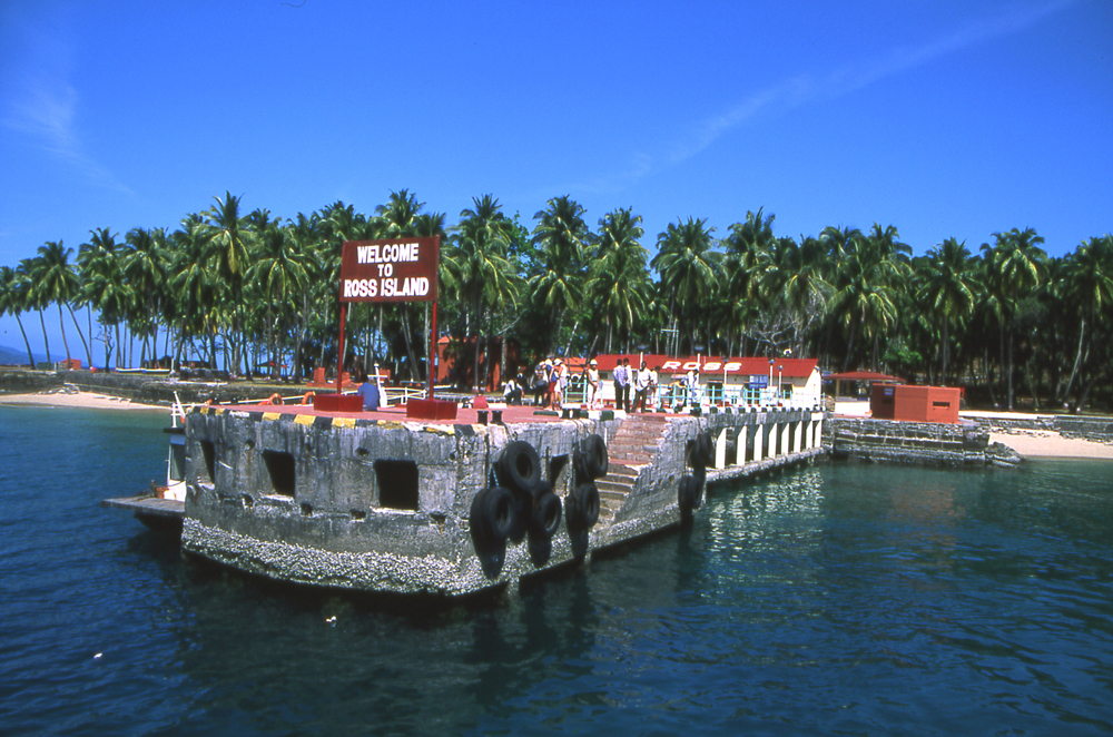 South Andaman, India. Ross Island a couple of days before the tsunami of December 2004.